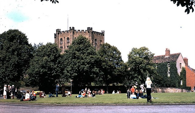 Palace Green (1973) Durham Castle in the background.